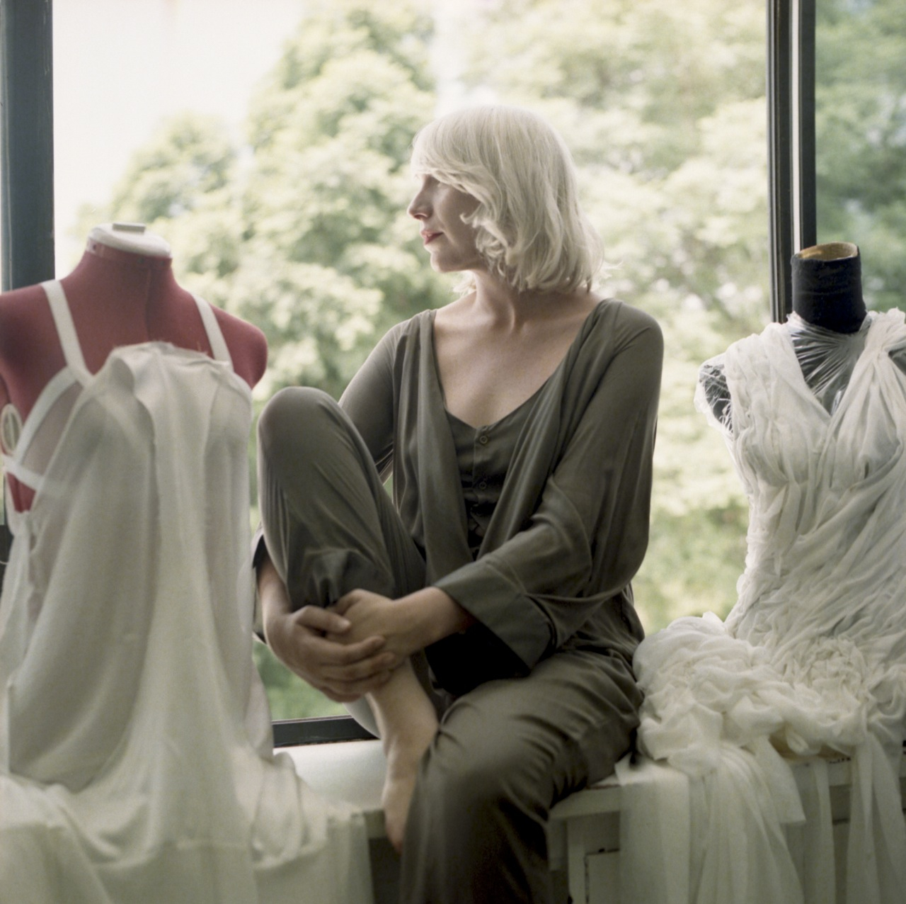 Surrounded by works in progress for her PPC Cement Collection